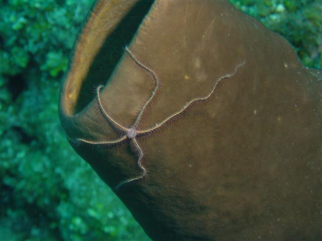 Brittle star on a sponge. Underwater photograph taken by Dlloyd using a digital camera at a depth of approximately 100 feet in Cayman. Afbeelding:Brittle star ff.jpg